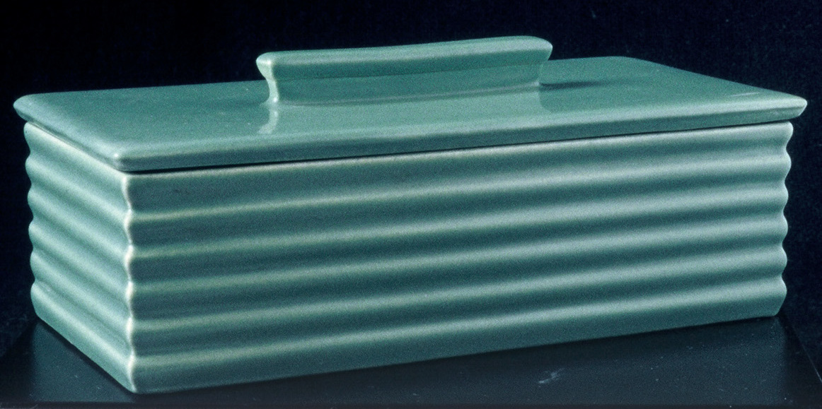 Box, cigarette, matt green glaze and cover, shape no 3871. "An earthenware box (cigarette box shape 3871) of rectangular form with flat base, straight sides with 6 horizontal moulded parallel ribs from base to rim; the flat fitted cover with collar and centrally placed narrow rectangular knop; the whole covered in a matt green glaze (except base of collar and foot ring). See boklet "Designs by Keith Murray, and animals figures by John R. Skeaping in Wedgwood", c-1935 (photocopy in object file k-5487)